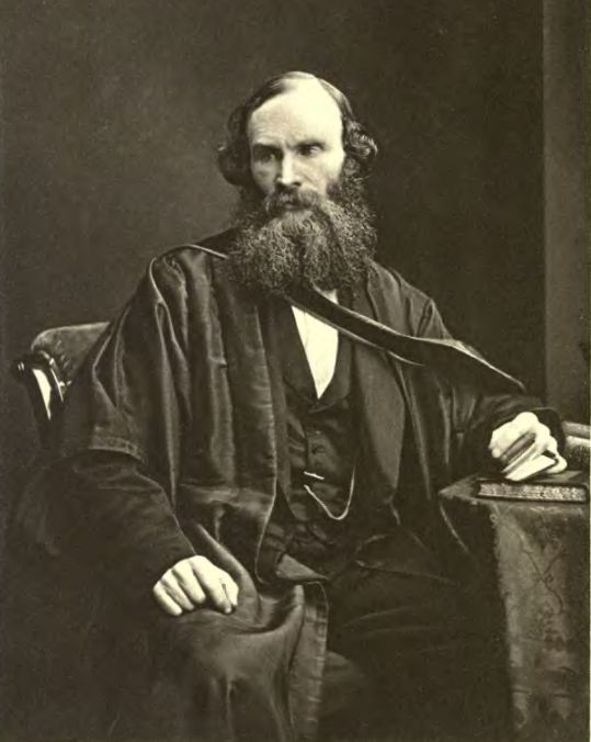 Photo of James Thomson (1822-1892) taken from the book Collected Papers in Physics and Engineering by James Thomson. The book is freely downloadable at (